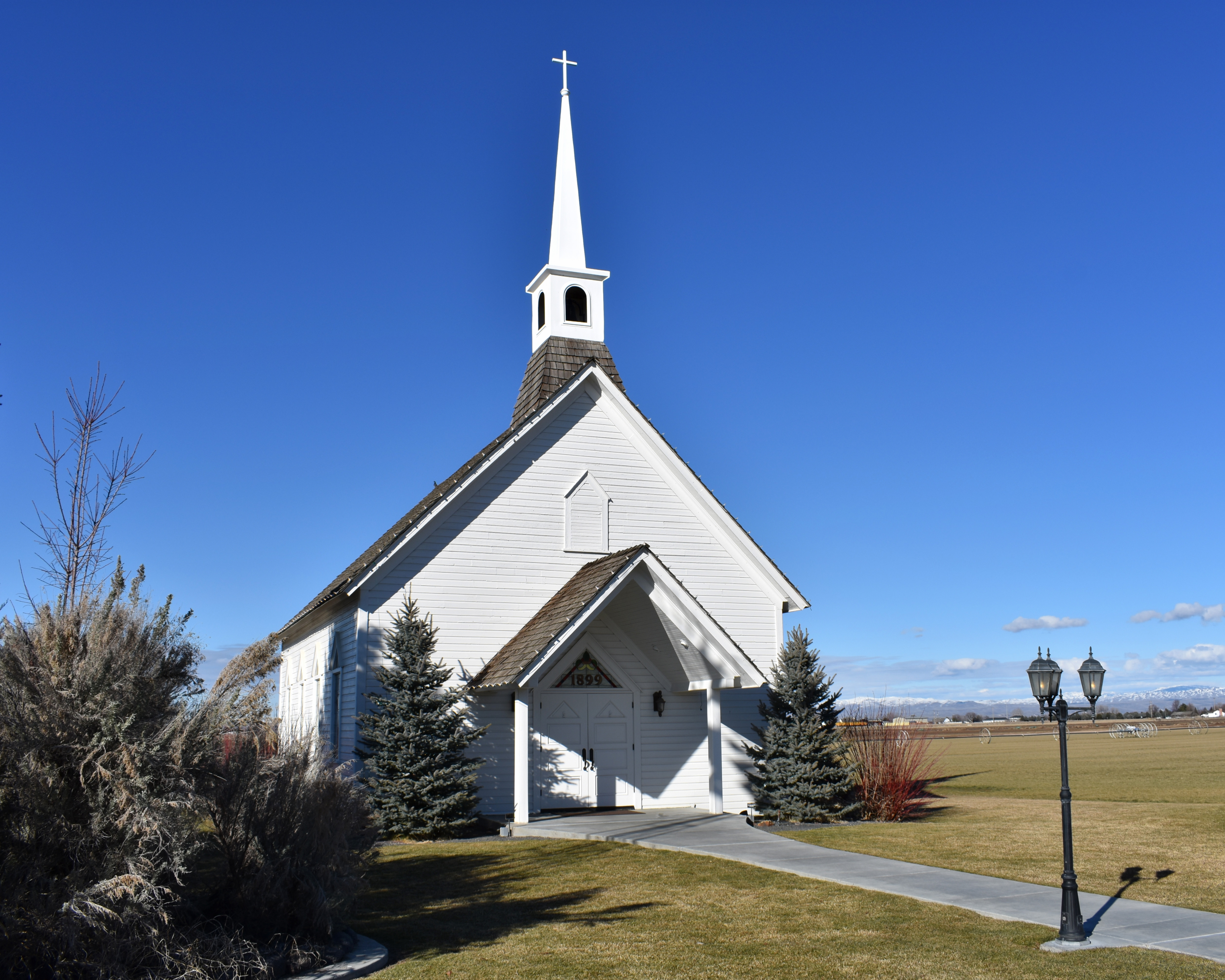 The former MacMillan Chapel near Nampa, Idaho, also known as the Little White Chapel, is listed on the National Register of Historic Places.